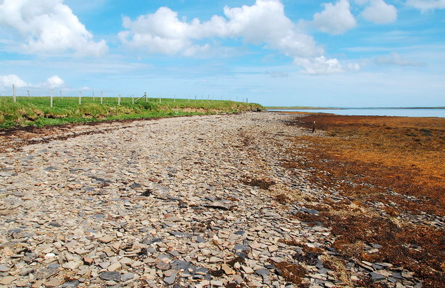 Intertidal Zone Sounds very technical doesn't it?